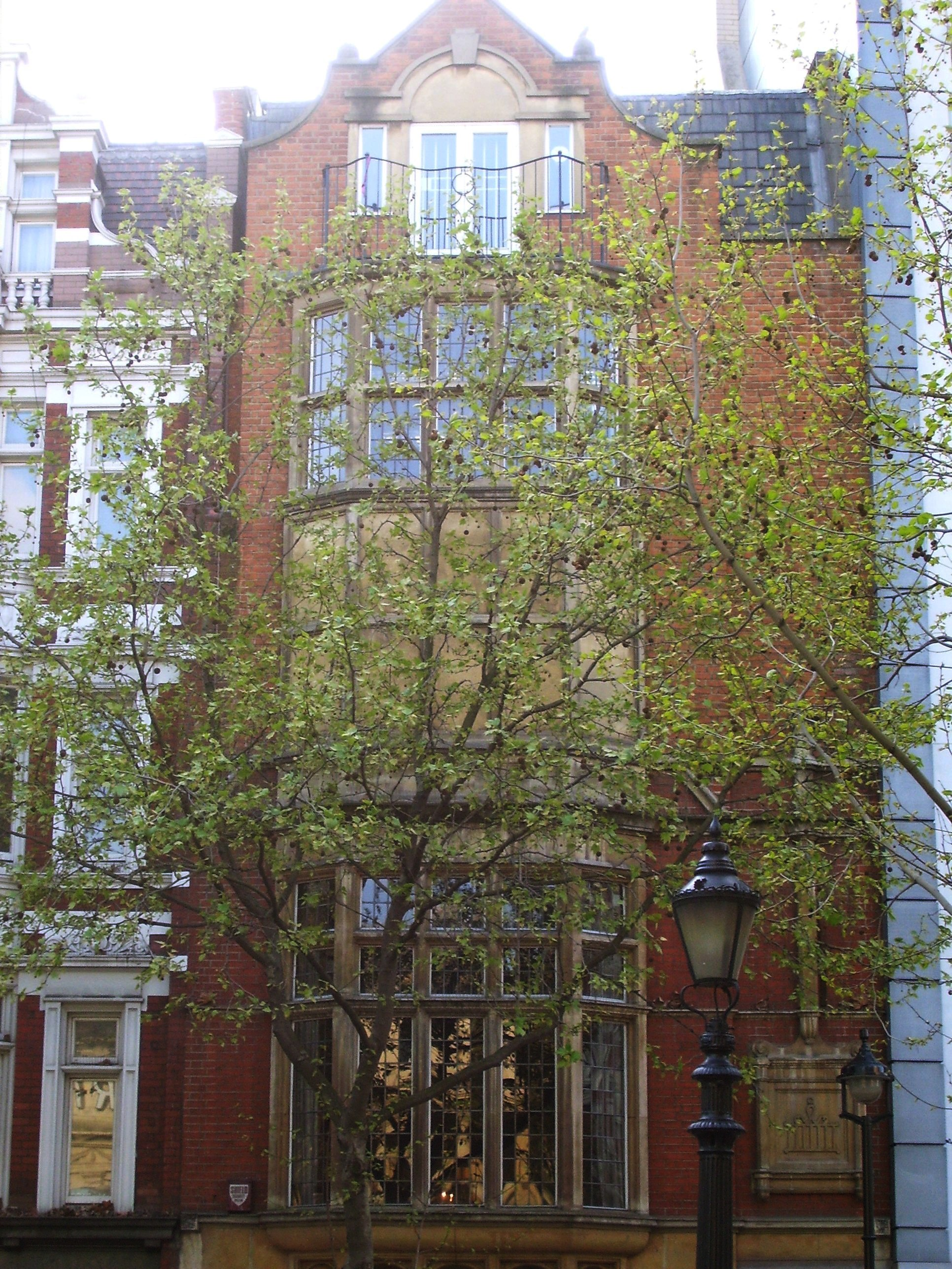 Currently (2014) this building is occupied by an art shop, 'Cass Arts', 13 Charing Cross Road, London WC2H 0EP